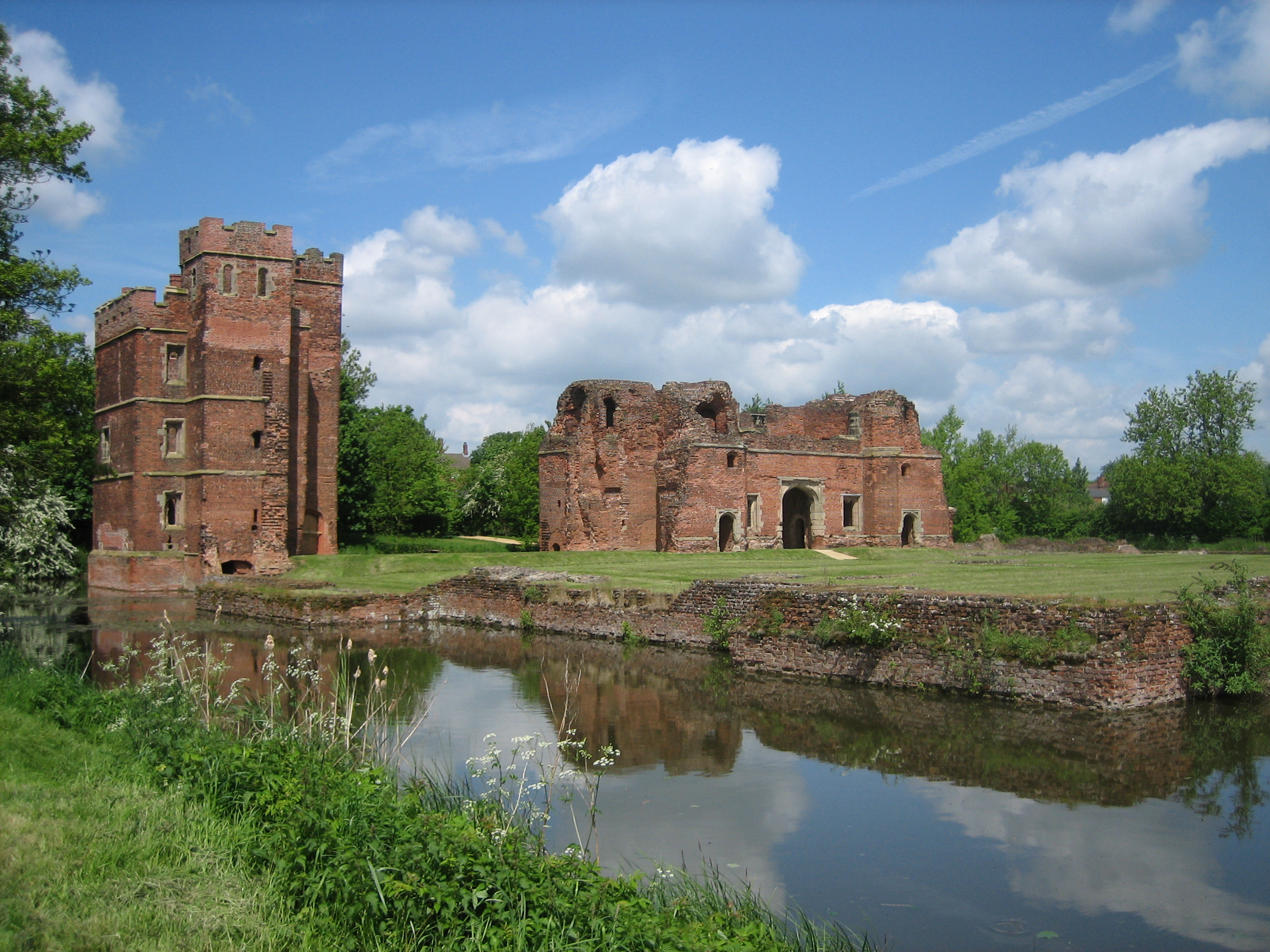 Kirby Muxloe Castle, own picture.